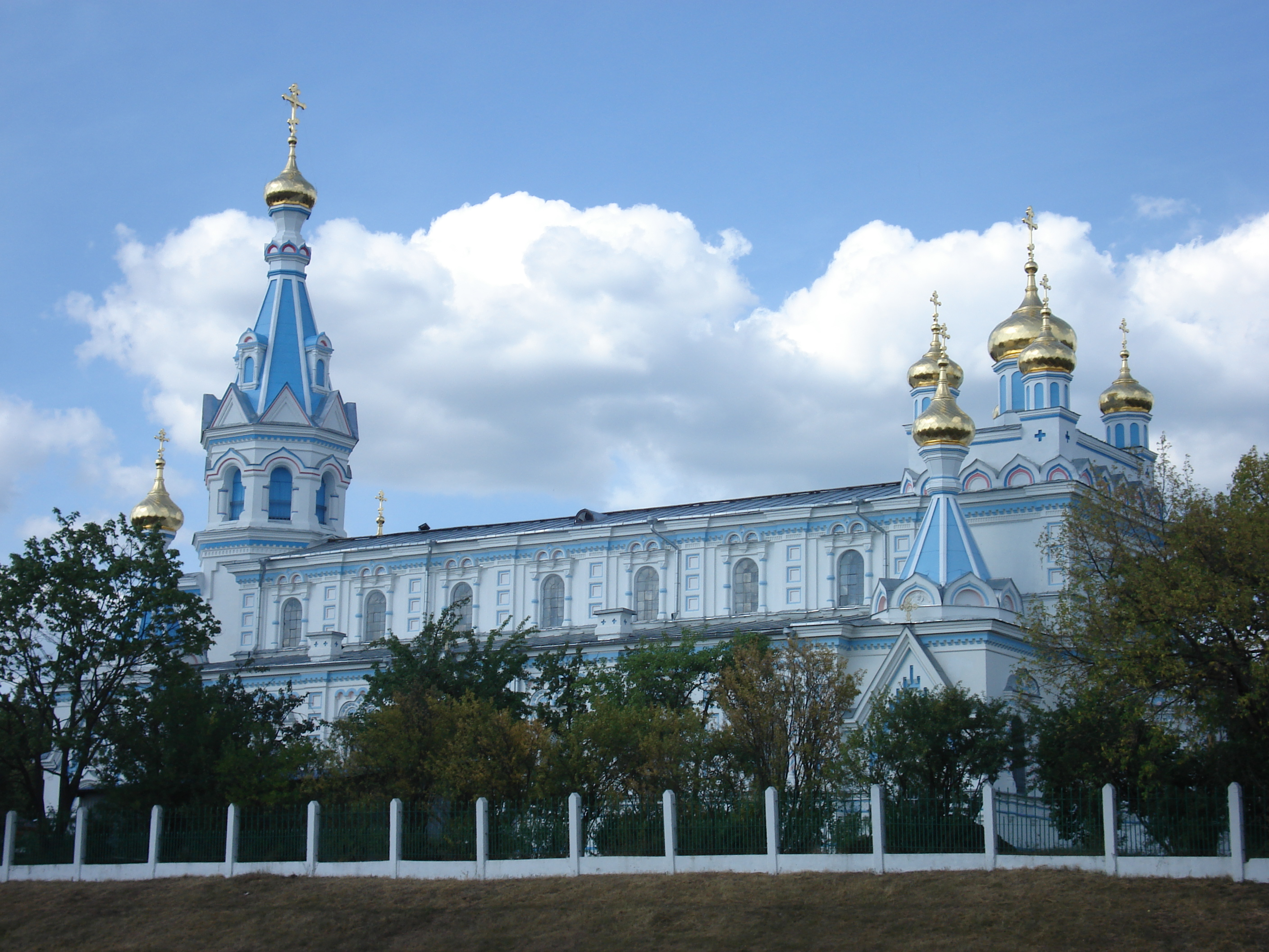 Daugavpils Ss Boris and Gleb Orthodox Cathedral